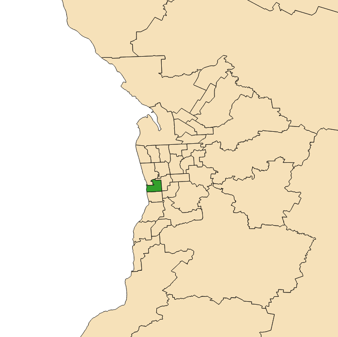 Electoral district 2018 boundaries shown in green